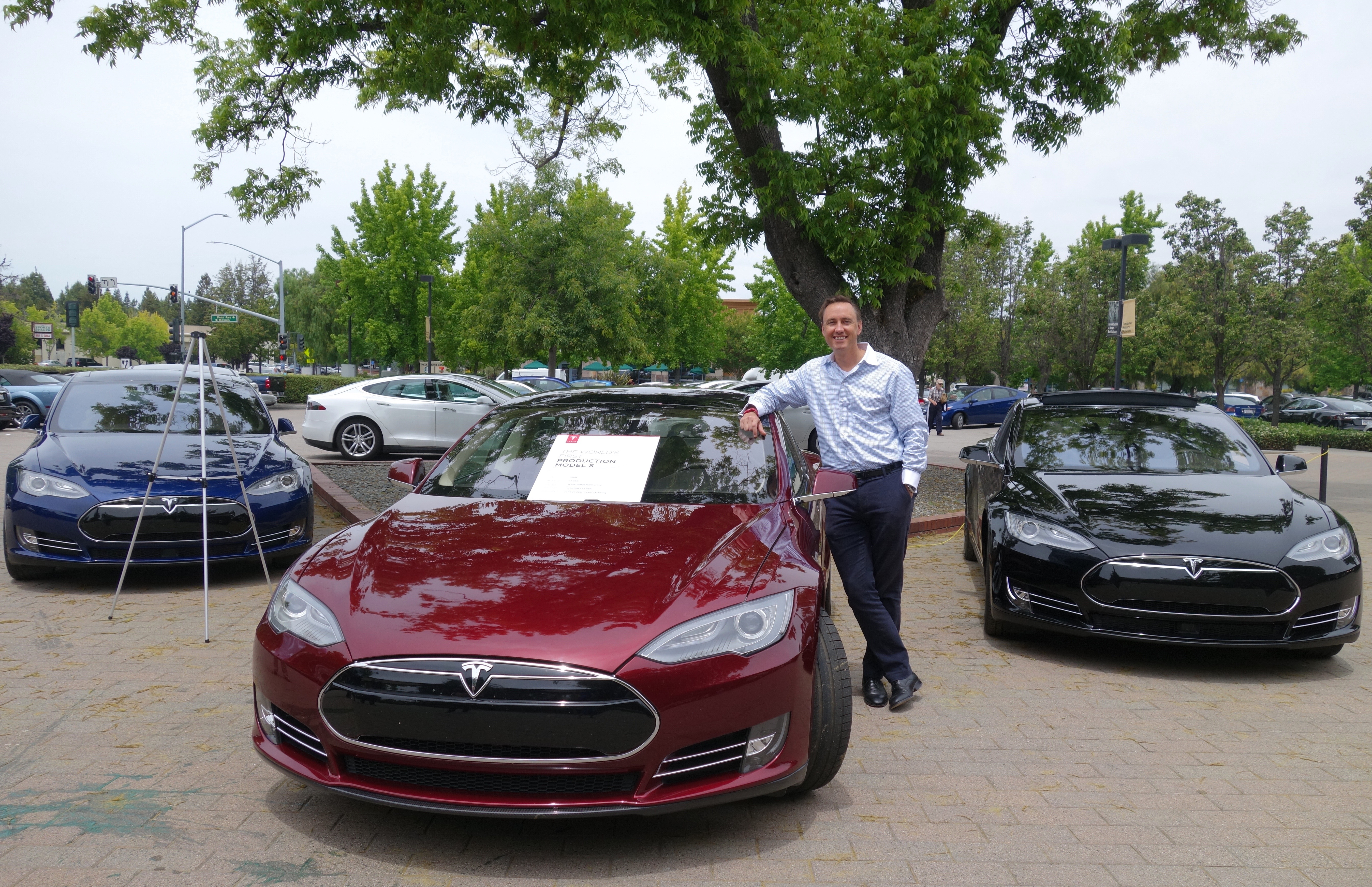 The World’s First Tesla Model S at the 2015 Annual Shareholders' Meeting, three years after its first delivery to a retail customer